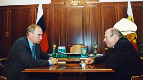 THE KREMLIN, MOSCOW. President Vladimir Putin with Knesset Member and Co-Chairman of the Russian-Israeli Commission on Trade and Economic Cooperation Natan Sharansky.